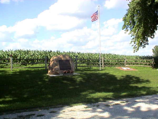 Image of the memorial plot in Rushville.